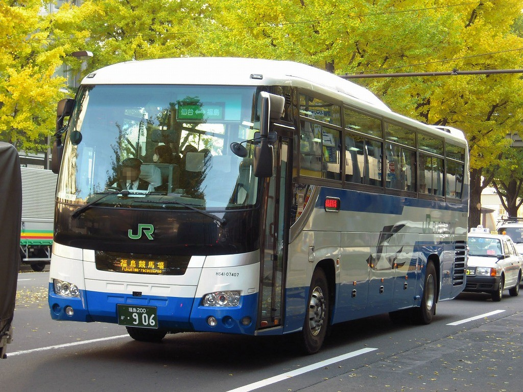 JR bus Tohoku Highwaybus "Sendai-Fukushima"(for Fukushima racecource)Isuzu Gala 2nd generation(PKG-RU1ESAN)